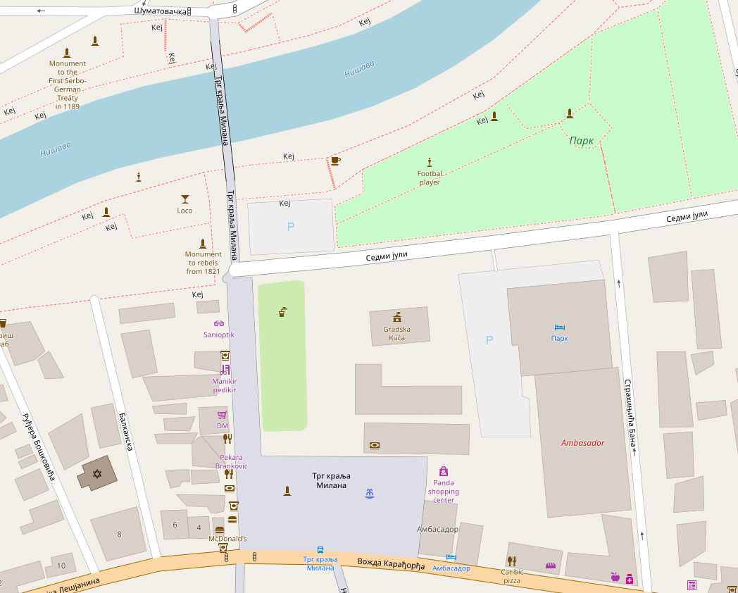 Trg kralja Milana.map Niš Serbia